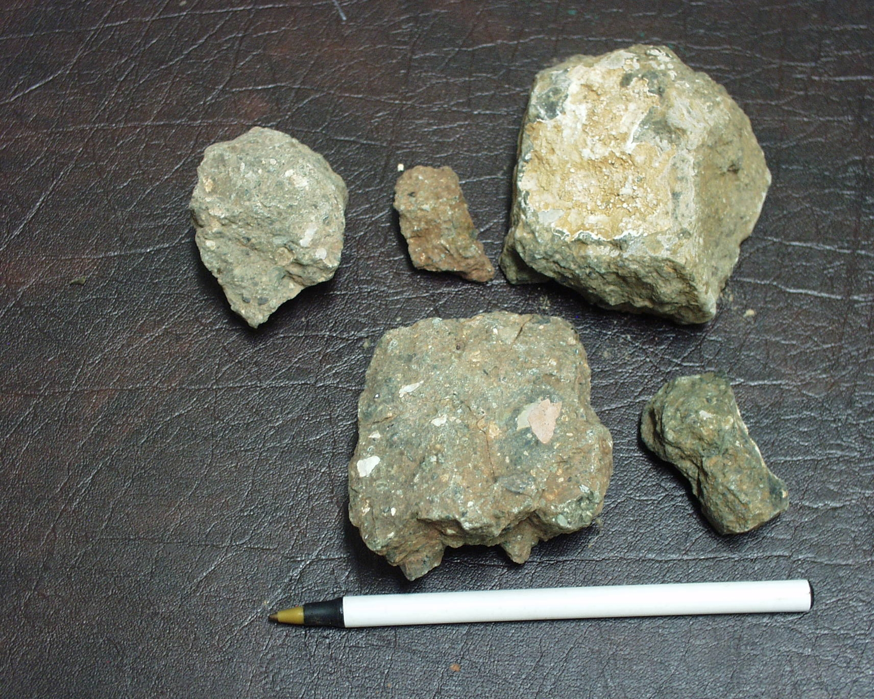 Typical kimberlite from the Lake Ellen kimberlite outcrop in Michigan.